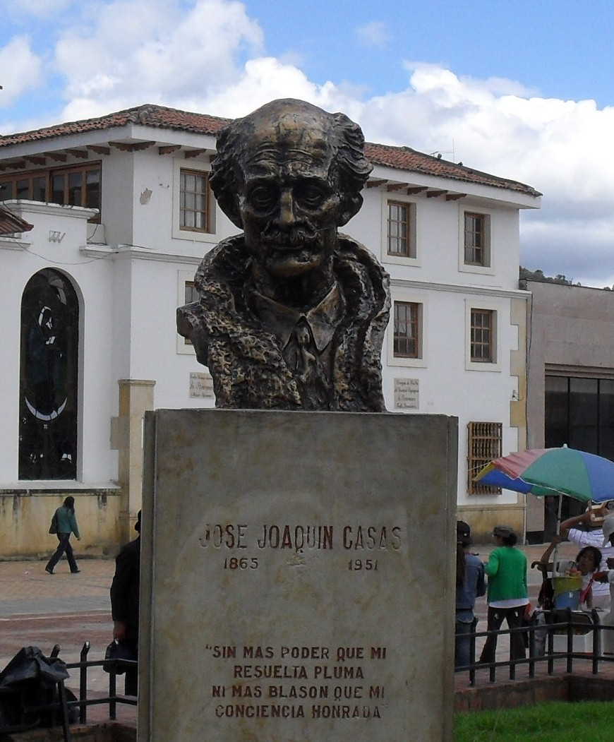 Busto de José Joaquín Casas en el parque Julio Florez de la ciudad de Chiquinquirá, Boyacá, Colombia